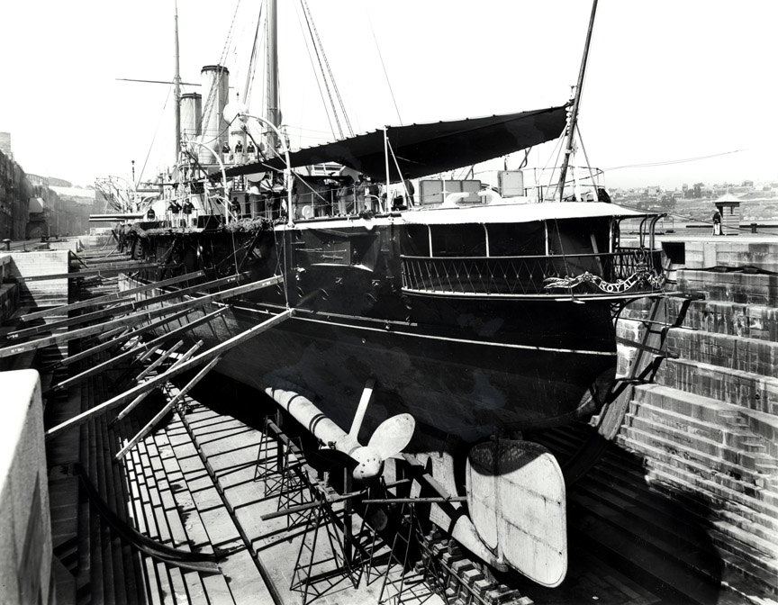 HMS Royal Arthur, flagship of the Australian Station, in the Sutherland drydock on Cockatoo Island, a major employer of painters and dockers in Sydney. Dated: c. 1900 Digital ID: 4481_a026_000813 Rights: We'd love to hear from you if you use our photos/documents. Many other photos in our collection are available to view and browse on our website using Photo Investigator.